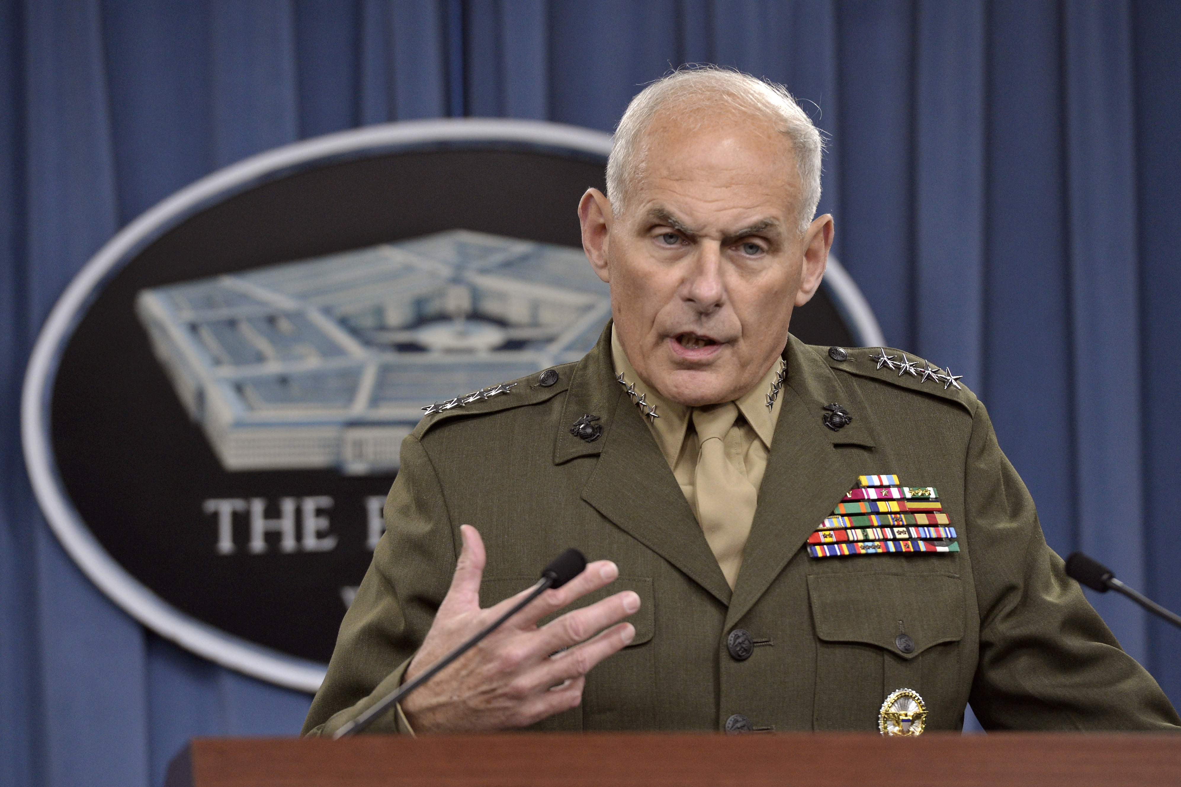 Marine Corps Gen. John F. Kelly, commander of U.S. Southern Command, discusses the latest developments in his command's efforts to stem the flow of drugs from South and Central America while briefing reporters at the Pentagon, March 13, 2014.